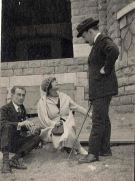 Ricard Viñes with Maurice Ravel and Hélène Jourdan